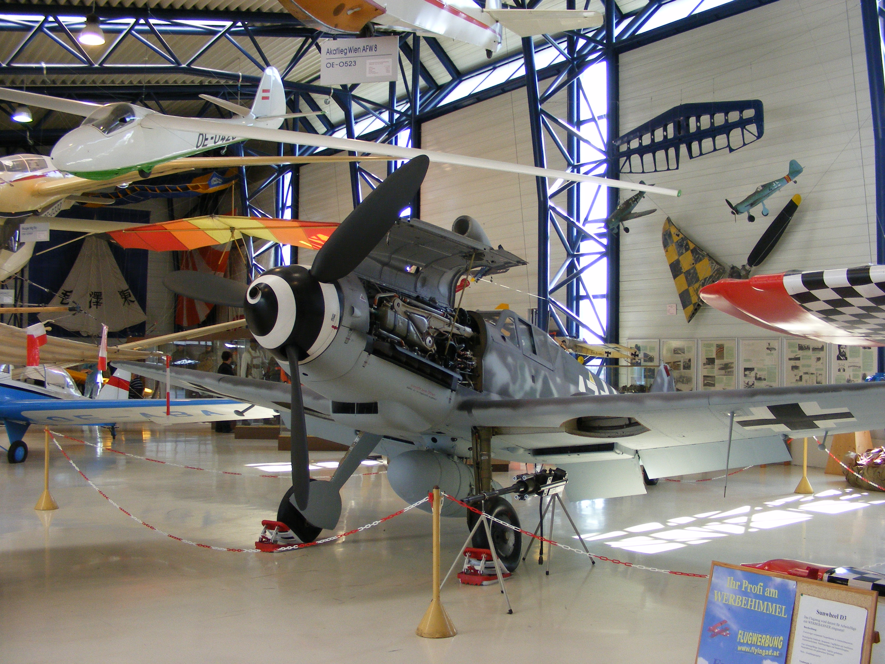 Messerschmitt Bf 109G-6 at aviaticum museum, Austria